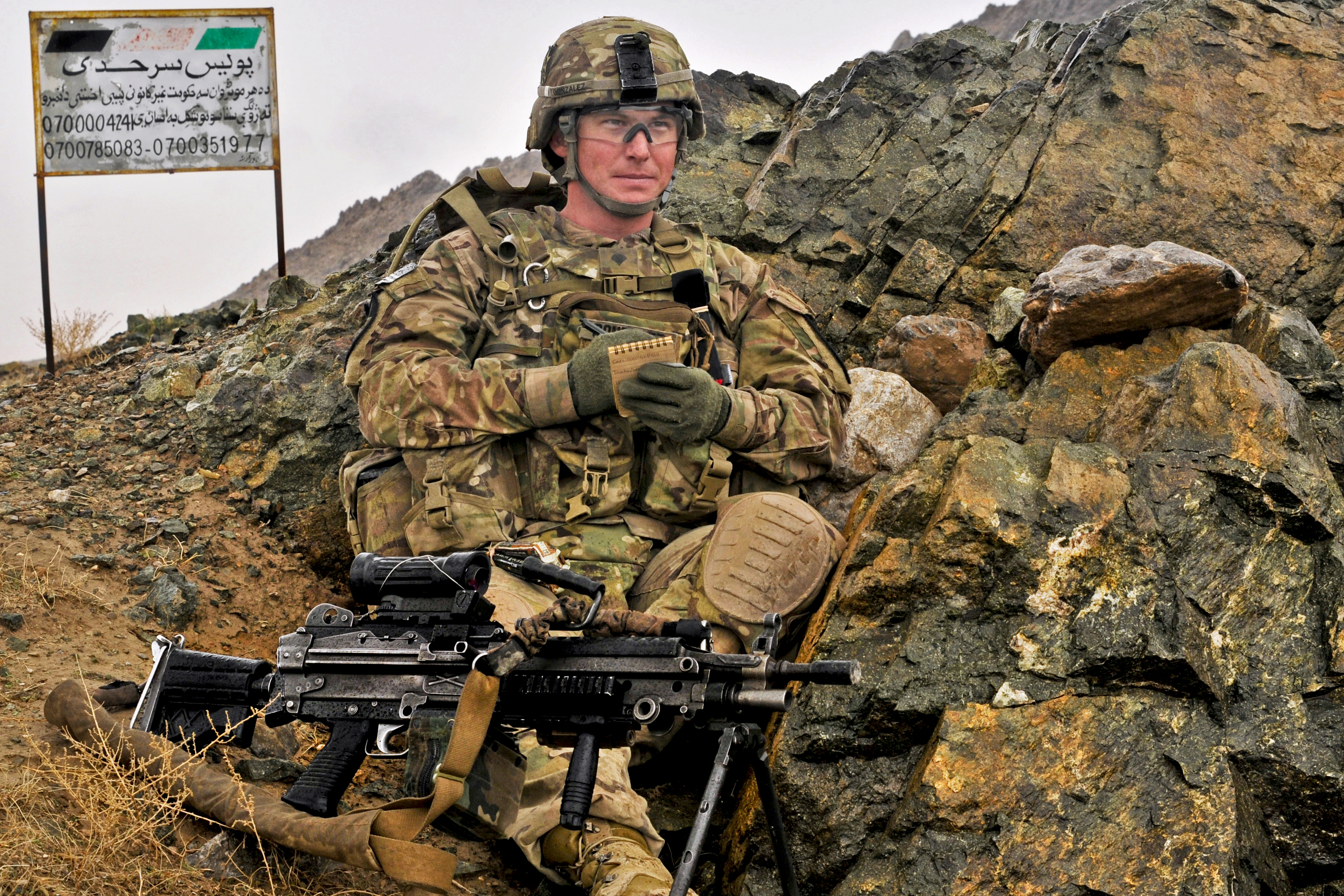 U.S. Army Spc. Bryan Gonzalez records traffic patterns at an Afghan Uniform Police traffic control point near Takhteh Pol, Afghanistan, on Feb. 26, 2013. Gonzalez and fellow infantrymen from B Company, 2nd Battalion, 23rd Infantry Regiment, are assisting the Afghan police by advising and providing over watch security.